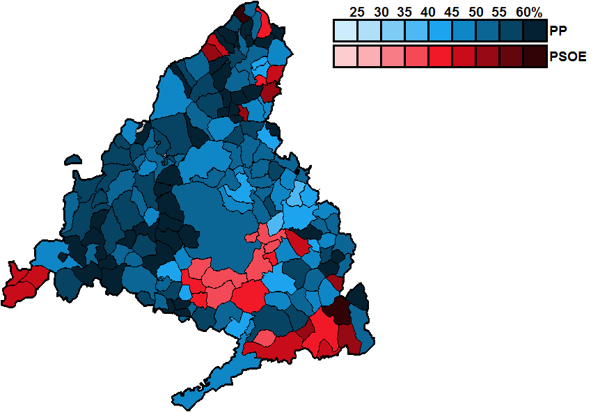 Most-voted party in Madrid municipalities, showing vote share obtained, in the Spanish general election, 1996.